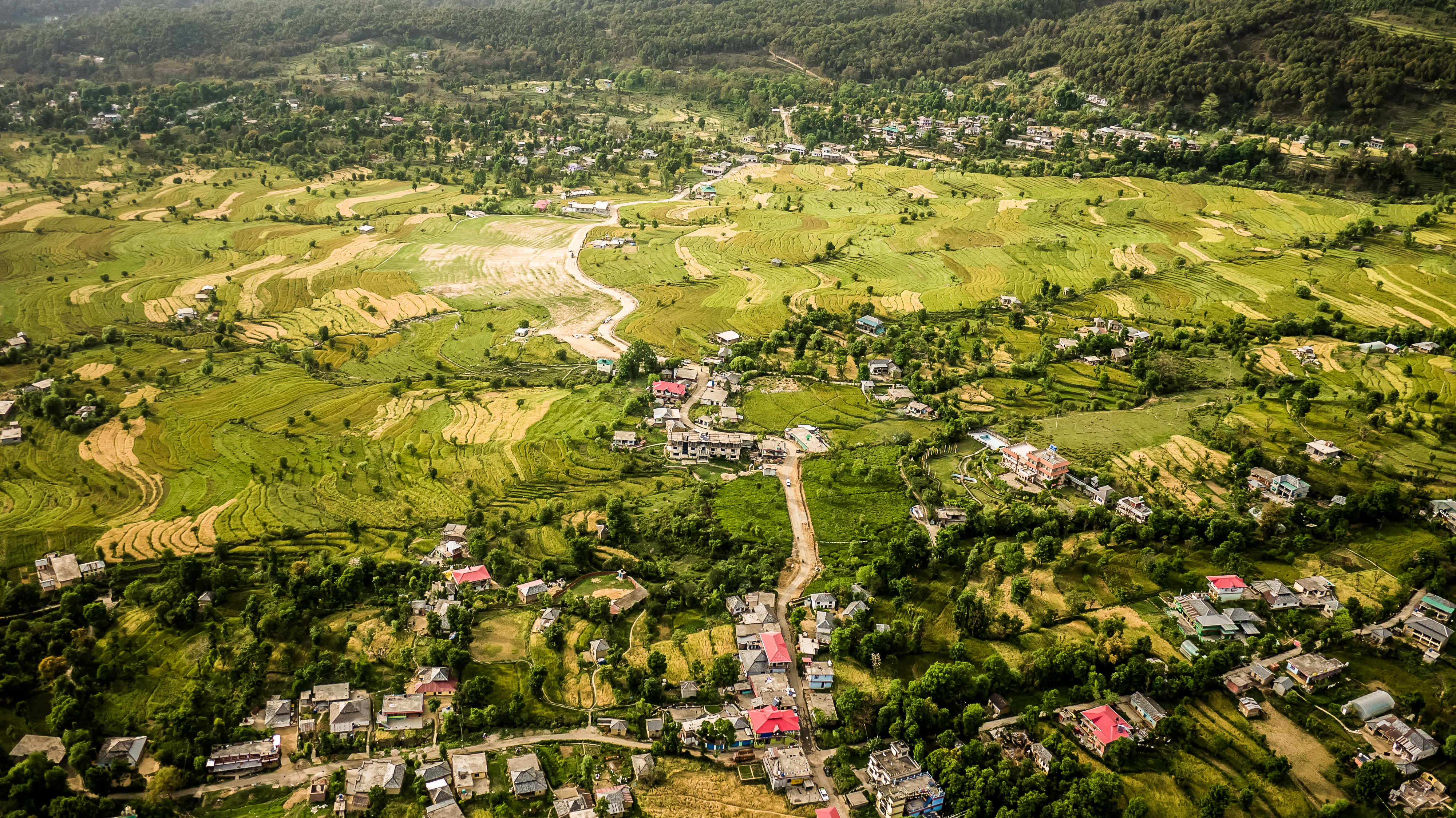 Flying a 208 km triangle in Bir, India paragliding Kangra Valley Himachal Pradesh India